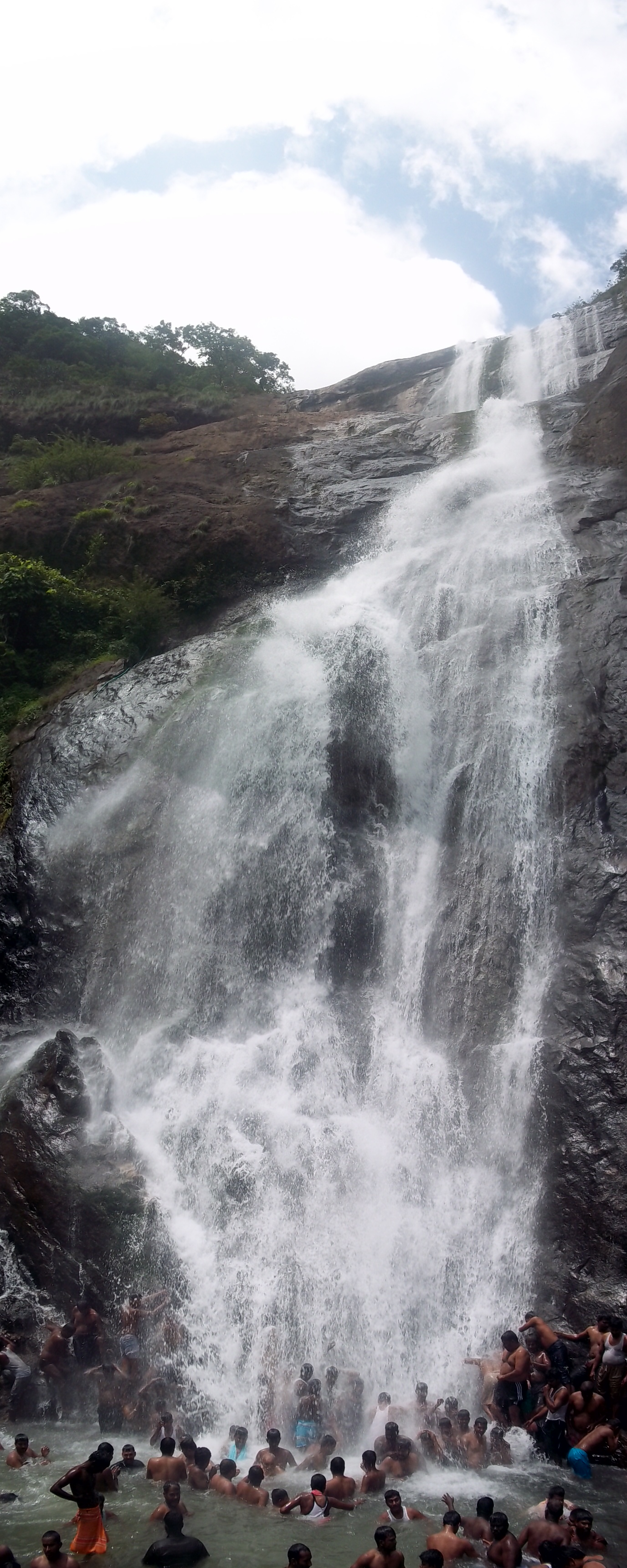 Paal aruvi falls located in Kerala